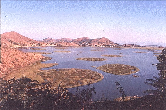 Loktak Lake area is a home to a wide range of wildlife. It provides refuge to at least 116 species of birds, both migratory and resident (Prof. H Tombi, HOD, Life Science, Manipur University) besides being the only natural habitats of the most endangered mammal, the Brow-antlered deer (Cervus eldi eldi) or locally known as "Sangai".